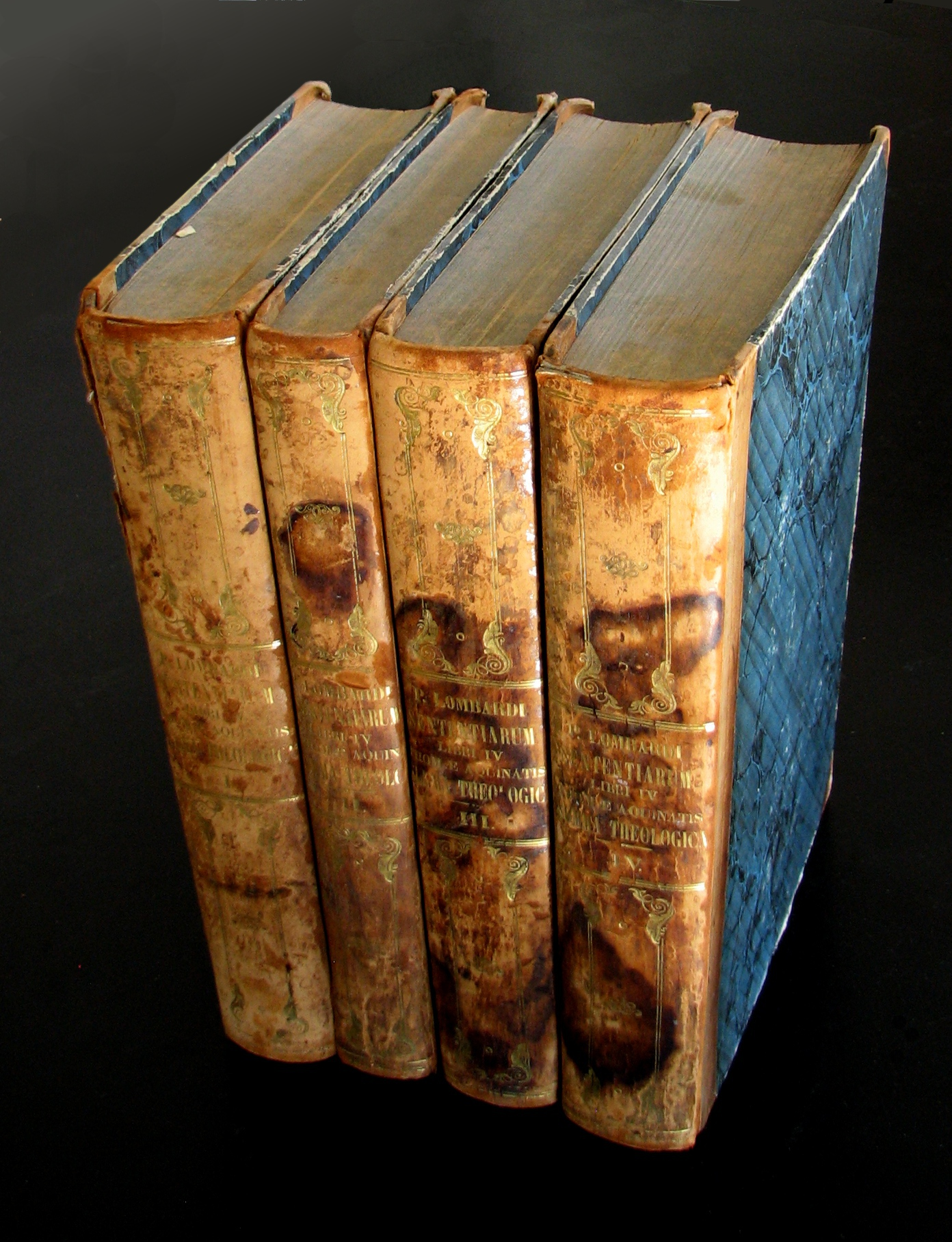 Lombardus, Petrus: Sententiarum libri quatuor; Thomae Aquinatis Summa theologica. Accurante J.-P. Migne. Parisiis, 1841. (Latin edition.)